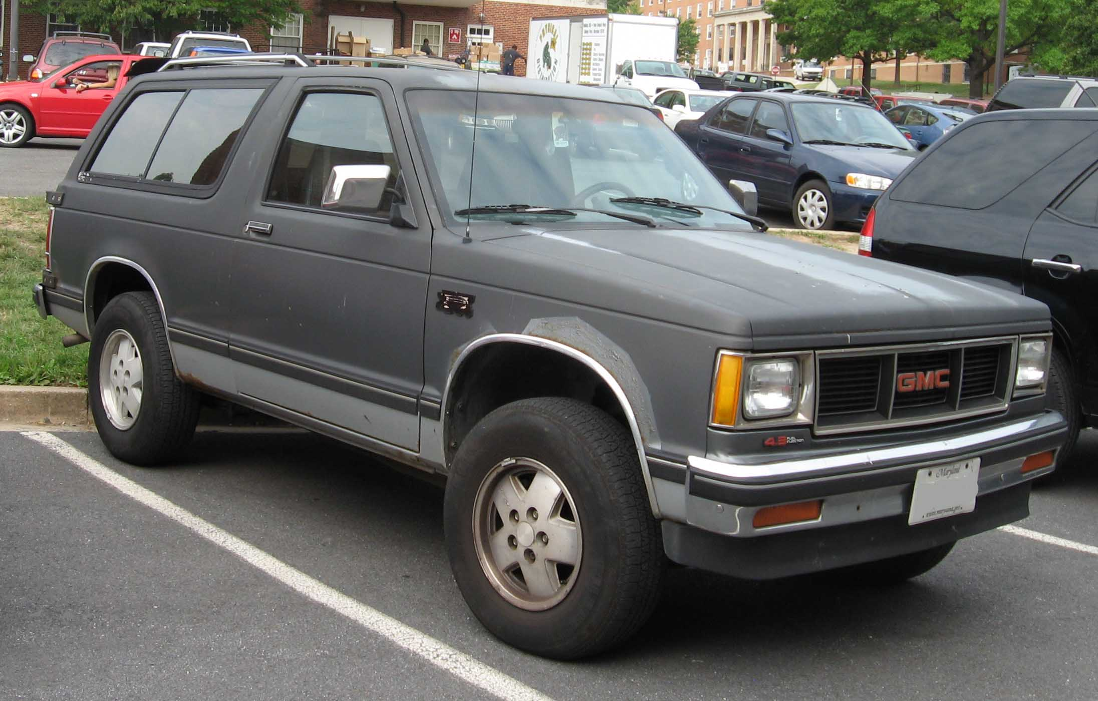 GMC Jimmy photographed in College Park, Maryland, USA.